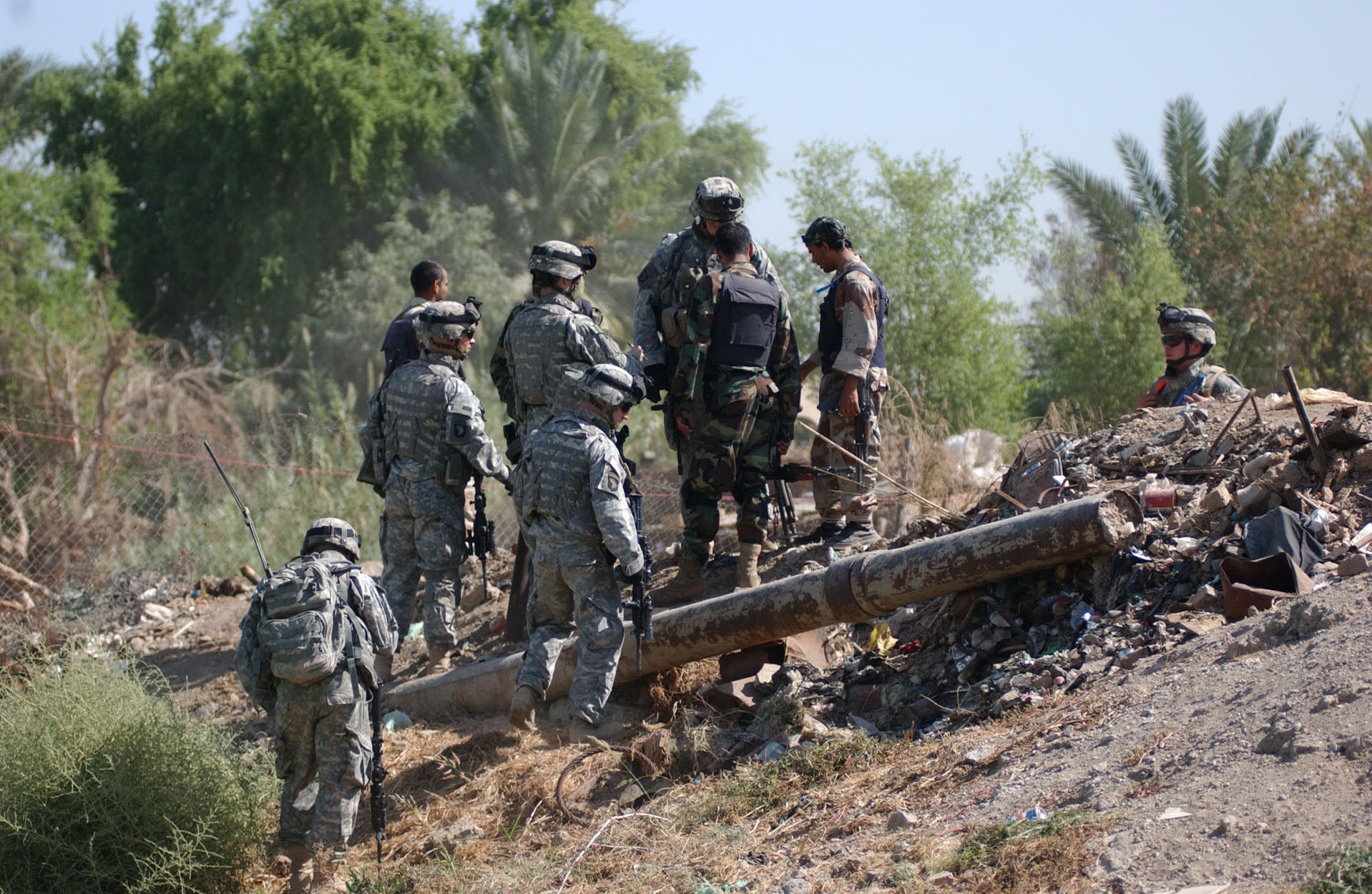 BAGHDAD – Iraqi National Police summon Soldiers from the 2nd Battalion, 506th Infantry Regiment, over to a small weapons cache hidden in a trash dump behind a neighborhood in Dora. The NPs from the 6th Brigade, 2nd National Police Division, routinely accompany the Soldiers during combined patrols and security operations, such as the cordon and search in Dora in October – part of the ongoing efforts in support of Operation Together Forward.(U.S. Army photo by Staff Sgt. Brent Williams, 4th BCT PAO, 4th Inf. Div.)